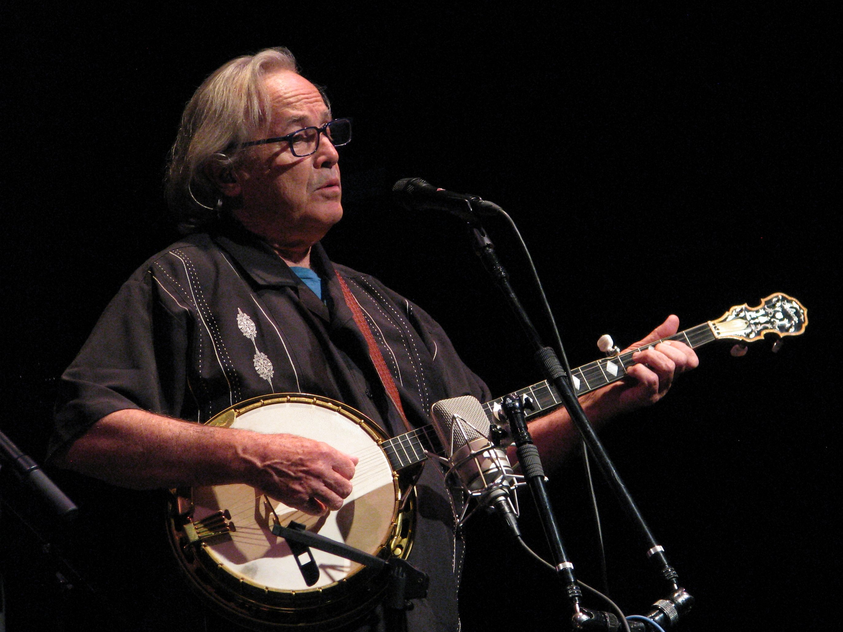 Ry Cooder performing with Ricky Skaggs and Sharon White, McGlohon Theater, Charlotte, NC, August 19, 2015